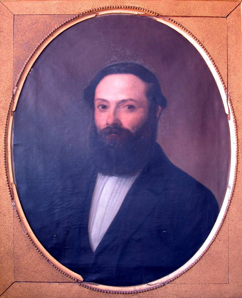 Francisco Taboada y Losada